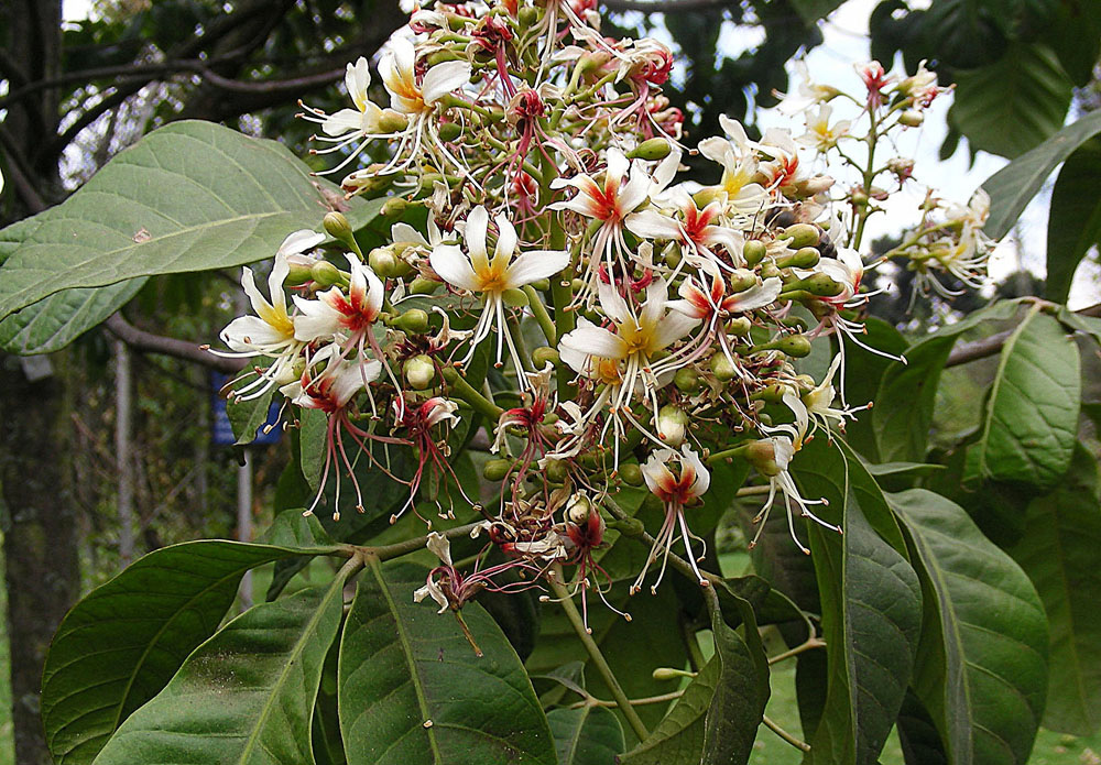 Known as Cariseco, and ranging from at least Costa Rica to Venezuela. Bogota Botanical Gardens. In context at